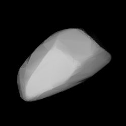 3D convex shape model of 1551 Argelander, computed using light curve inversion techniques. J. Hanuš, J. Ďurech, M. Brož, B. D. Warner (June 2011). "A study of asteroid pole-latitude distribution based on an extended set of shape models derived by the lightcurve inversion method". Astronomy and Astrophysics 530: A134. ISSN 0004-6361. arXiv